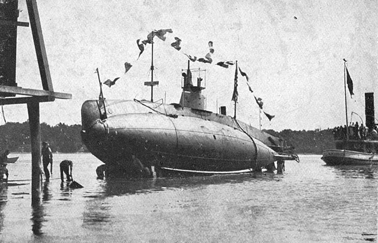 USS Octopus (Submarine # 9) Halftone reproduction of a photograph taken during her launching, at the Fore River Ship Building Company shipyard, Quincy, Massachusetts, 4 October 1906. Original caption: “ Photo # NH 44579 Launching of USS Octopus, at Quincy, Mass., 4 October 1906 ” — removed caption